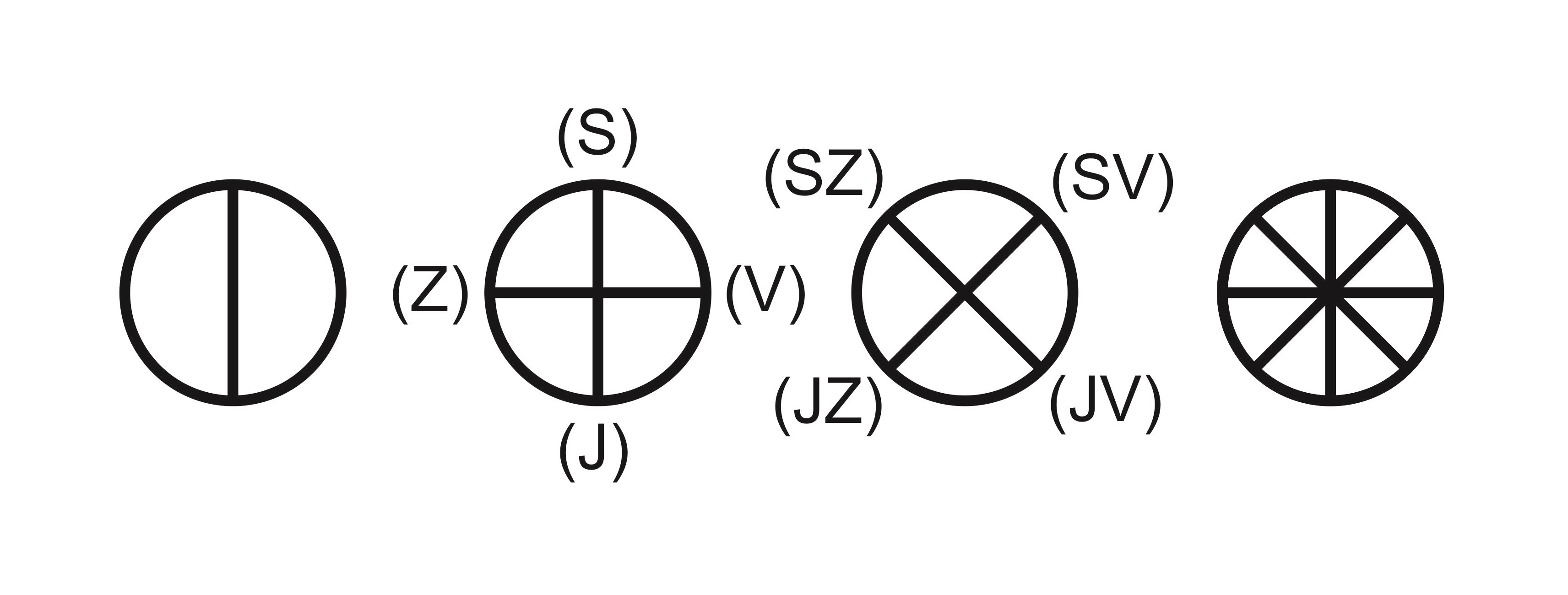 Wheel of the Sun, created by four main and four secondary world sides.